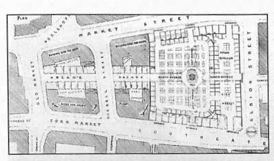 An original drawing of the floor plan of Borough Market, Halifax from circa 1895. Author unknown.